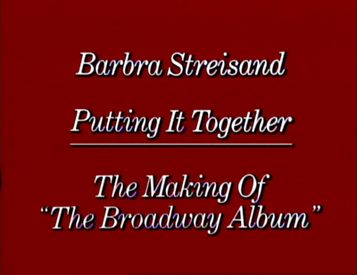 Putting It Together The Making of The Broadway Album